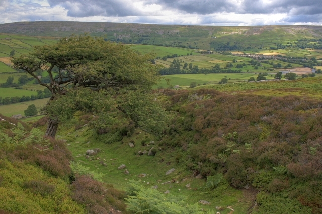 Maiden Castle An iron age enclosure possibly dating from 600 BC. It is banjo shaped with a narrow stone lined entrance corridor 110m long. This is best seen from aerial photographs. It is thought that initially it was a settlement of peoples attracted by the precious metals, lead and silver, abundant in the dale. Its strategic location as a defensive structure seems odd but not unusual with several other examples of hillforts built on a slope.